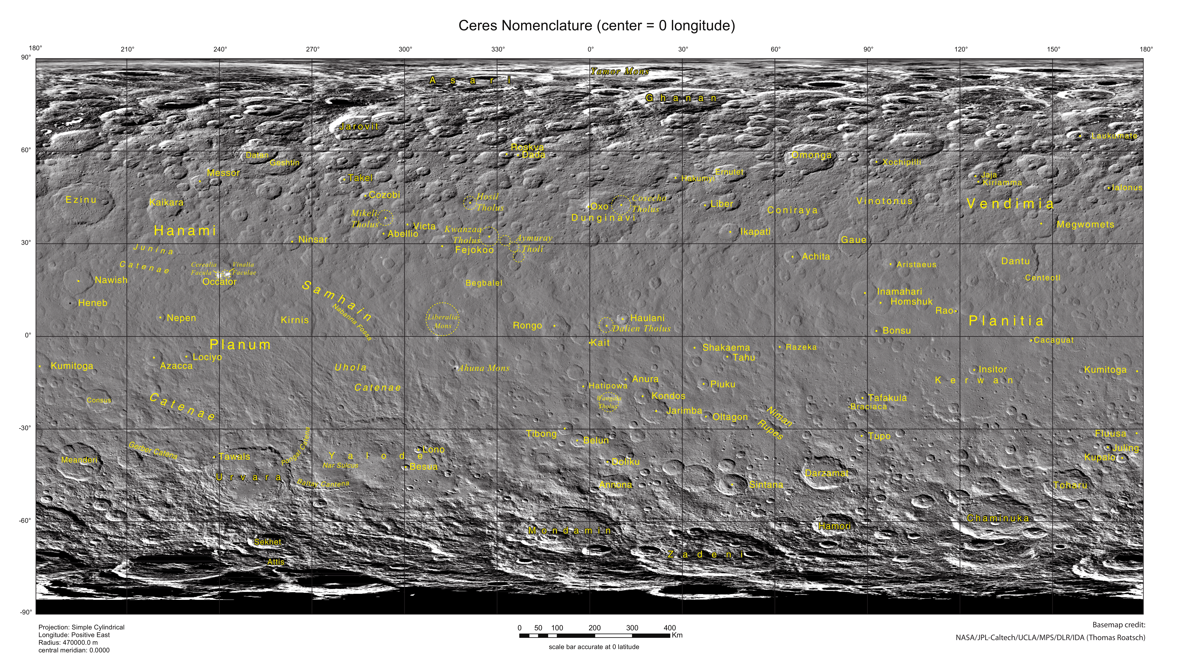 Map of Ceres with all 114 feature names approved by the International Astronomical Union (IAU) as of December 2016.